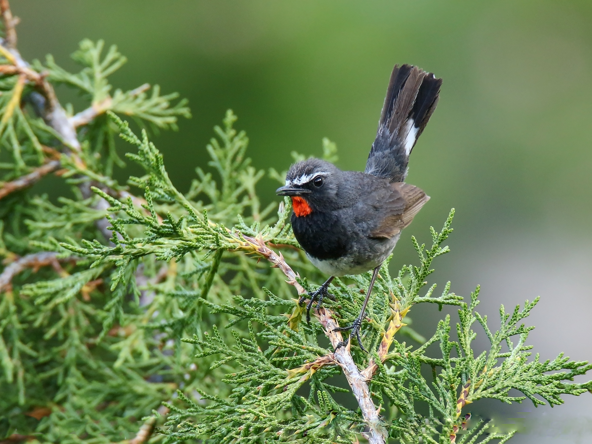 White-tailed Rubythroat (Luscinia pectoralis) captured at Shispare Ther, Hunza, Gilgit-Baltistan, Pakistan with Canon EOS 7D Mark II